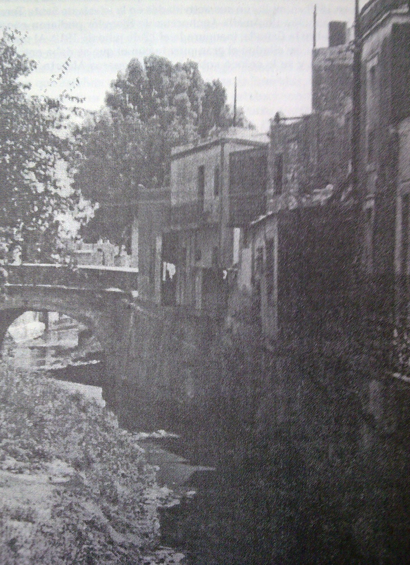 La Cañada (The Glen) of Cordoba, Argentina, before its current channeling.